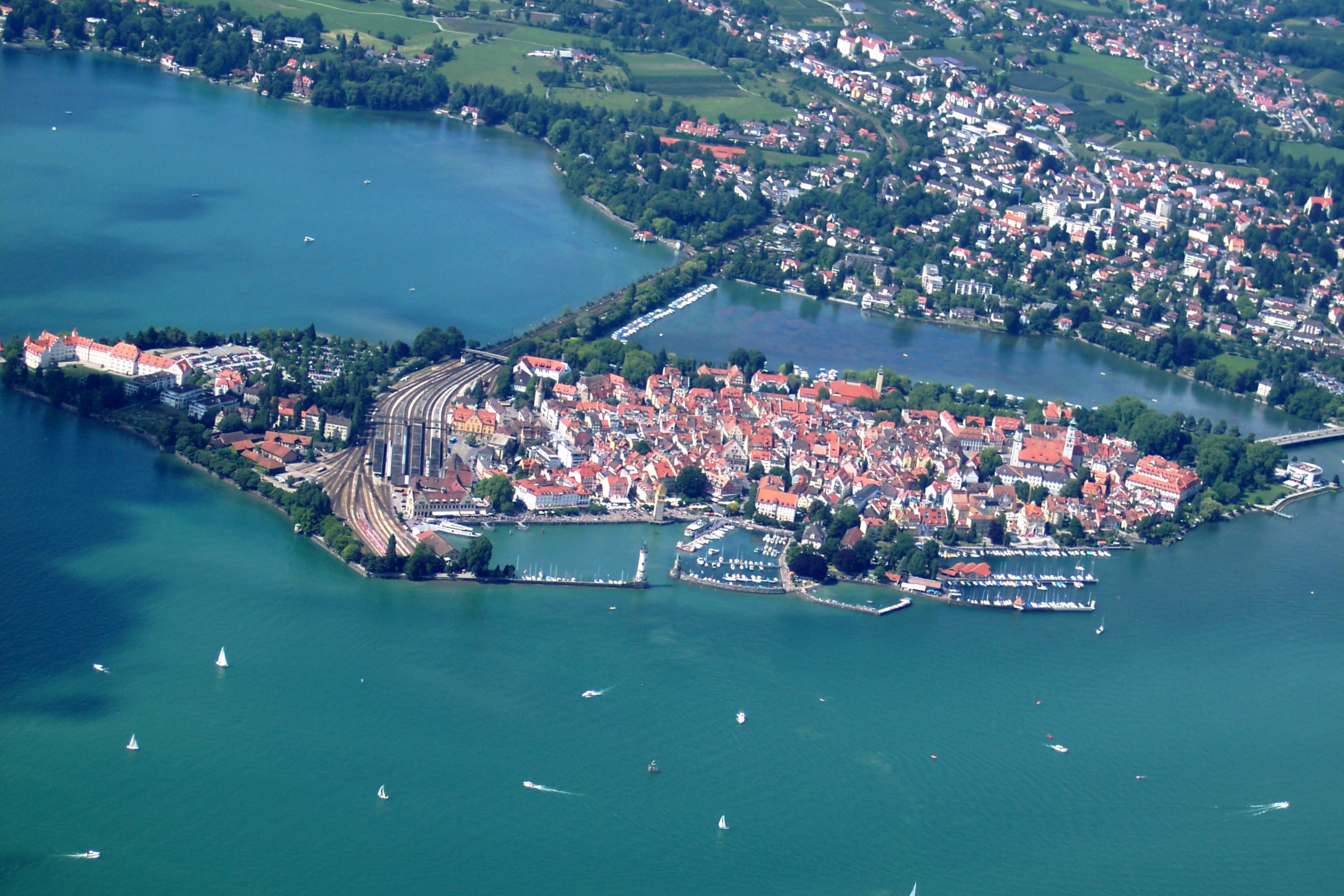 Airphoto Lindau, Lake Konstanz, Germany